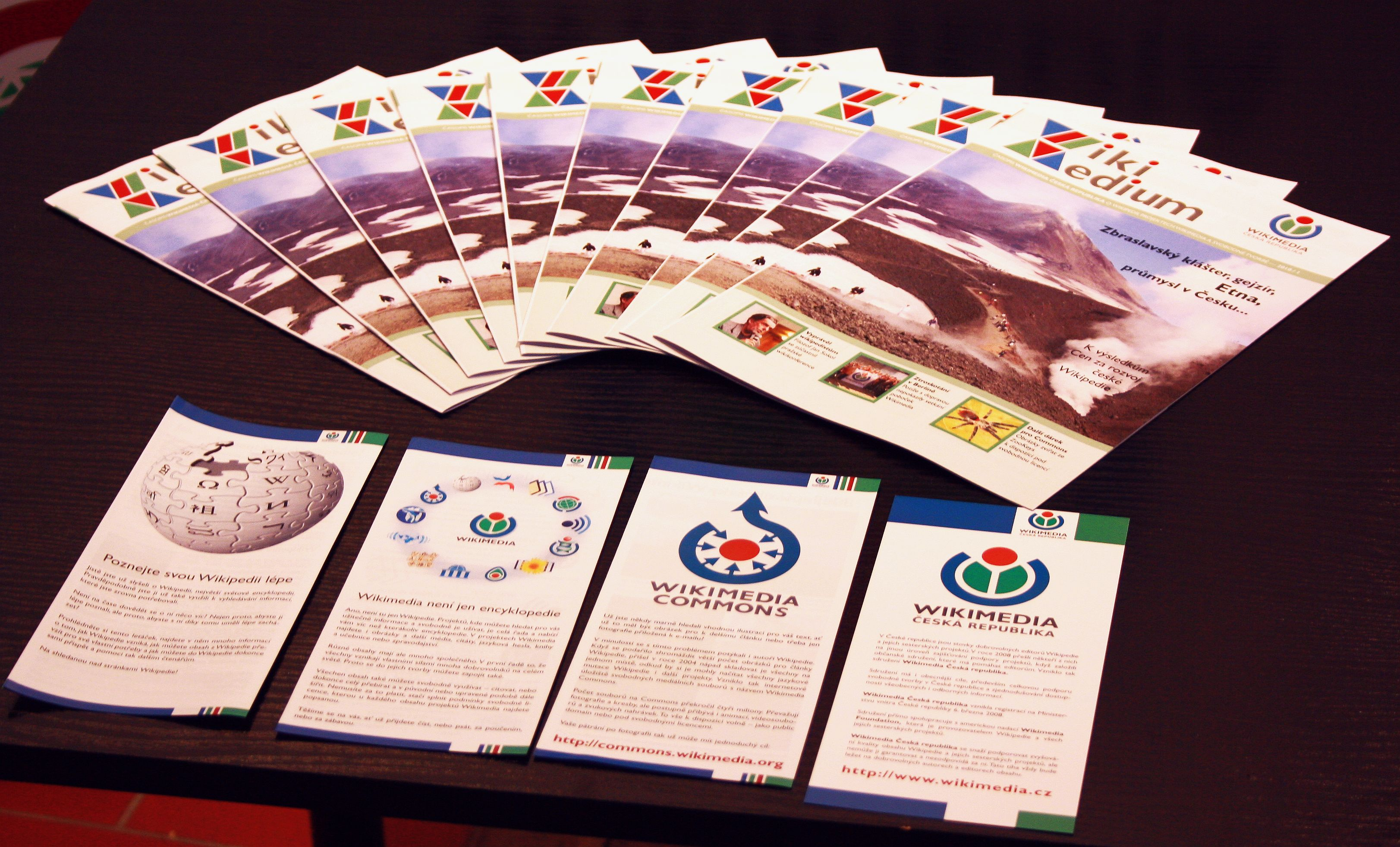 Leaflets and Wikimedium magazine of the Wikimedia Czech Republic